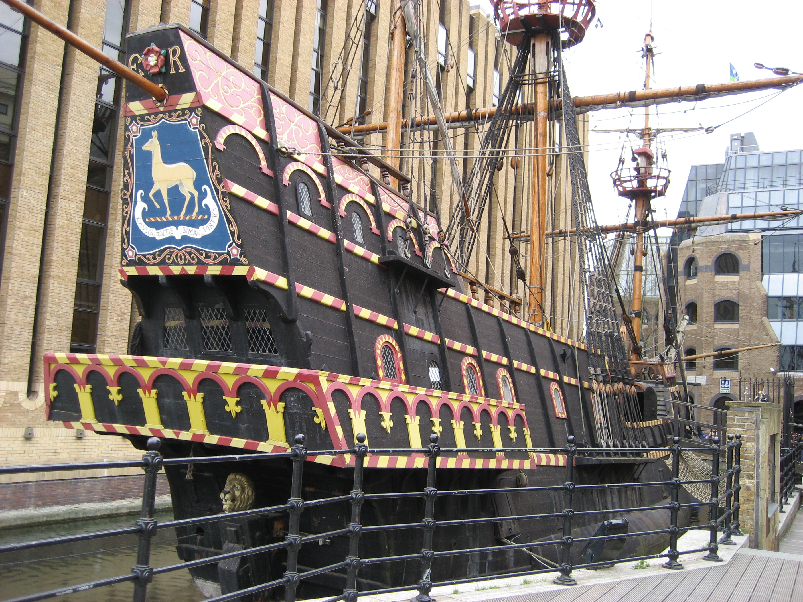 Replica of the Elizabethan galleon, The Golden Hind, captained by Francis Drake in 16th Century, Southwark, London, UK